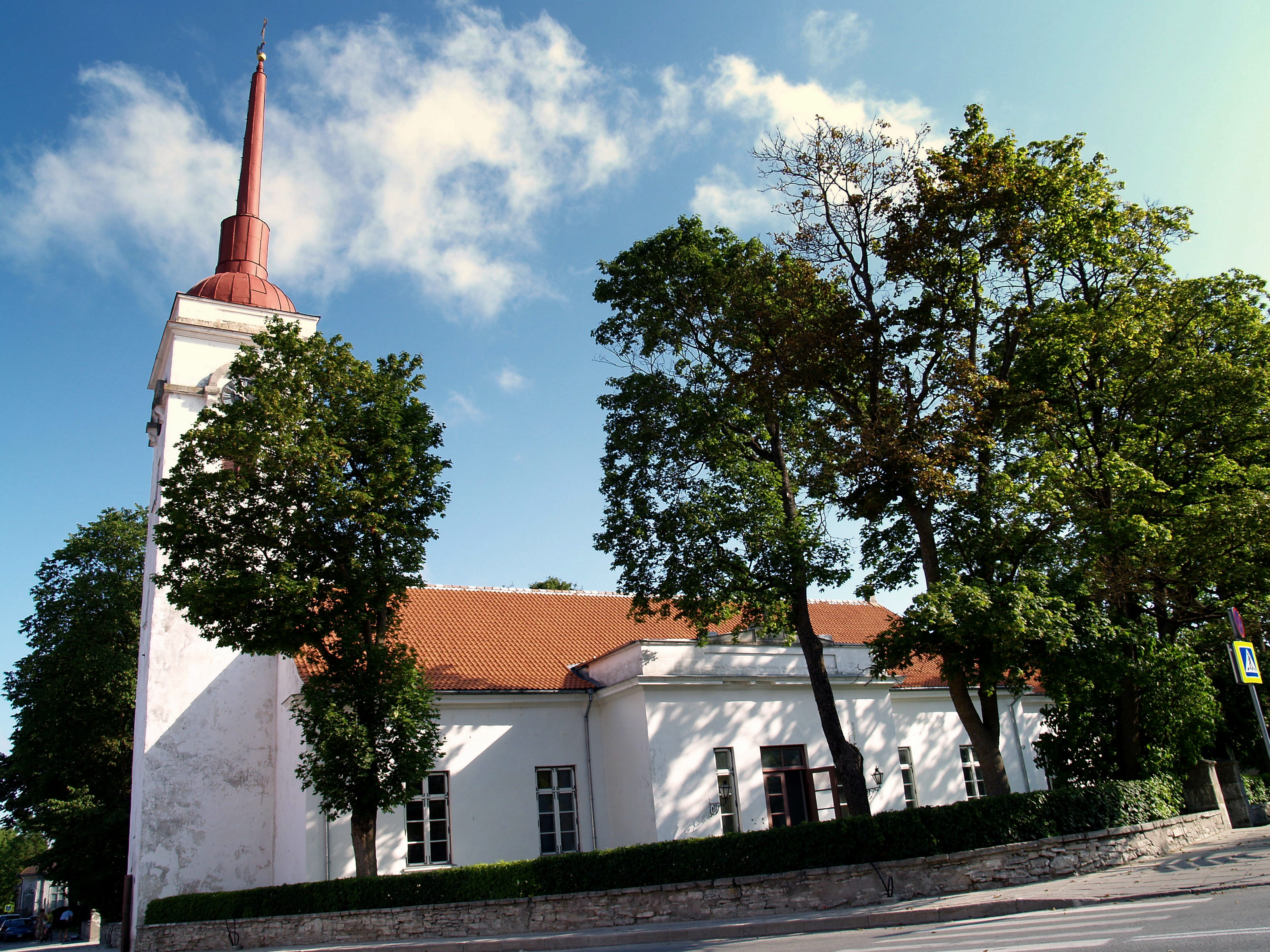 Kuressaare's St. Lawrence's church